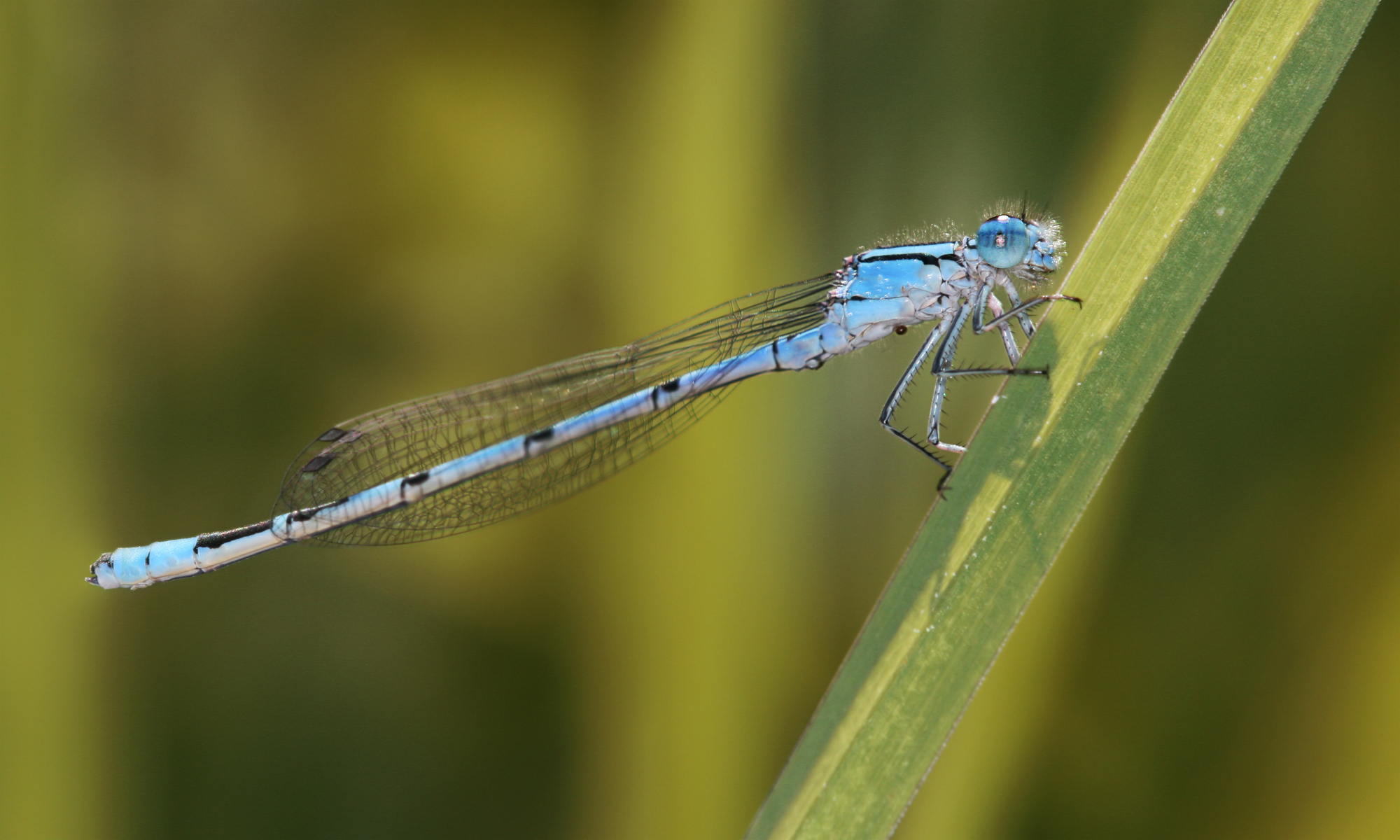 Description: Enallagma cyathigerum. The insect family Coenagrionidae is found in the order Odonata and the suborder Zygoptera. The Zygoptera are the damselflies, which although less known than the dragonflies, are no less common.